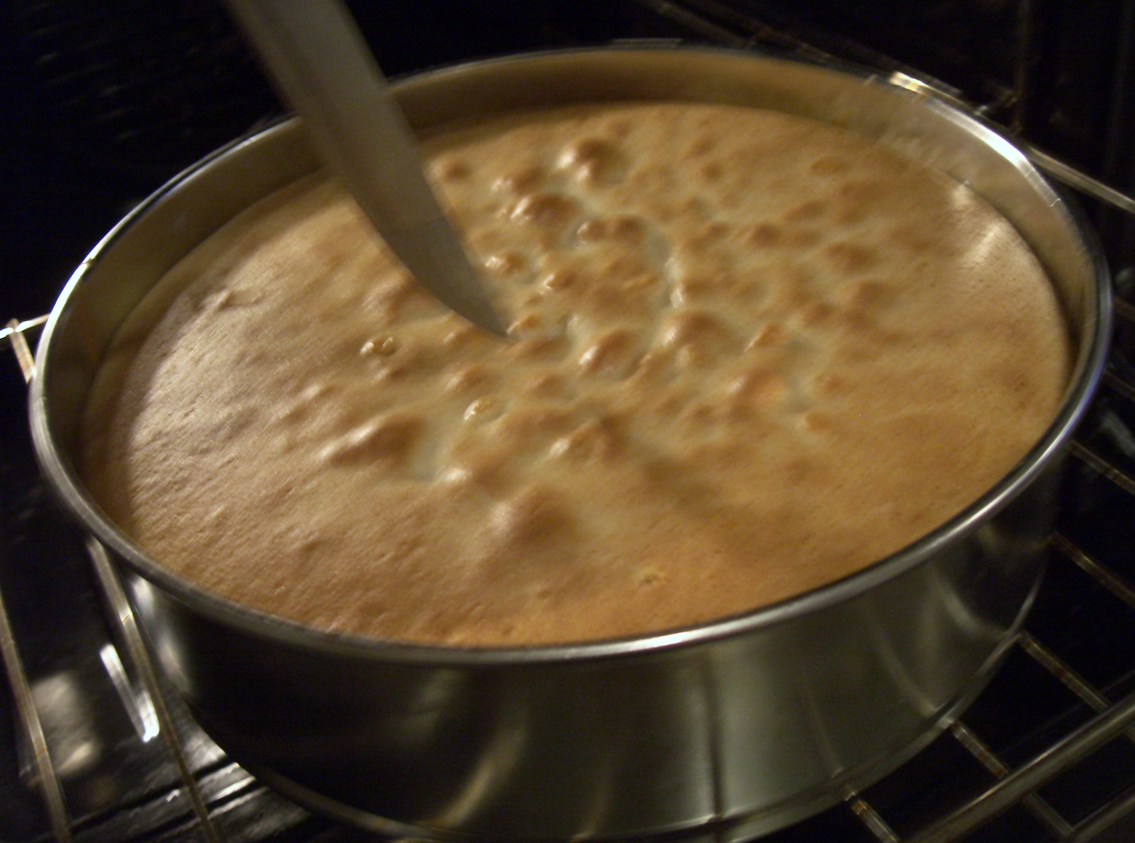 Putting a knife or skewer in a cake is a way to check if a cake is "done" or cooked enough. If the implement comes out "dirty", ie the mixture inside is still wet, then it's not done yet.